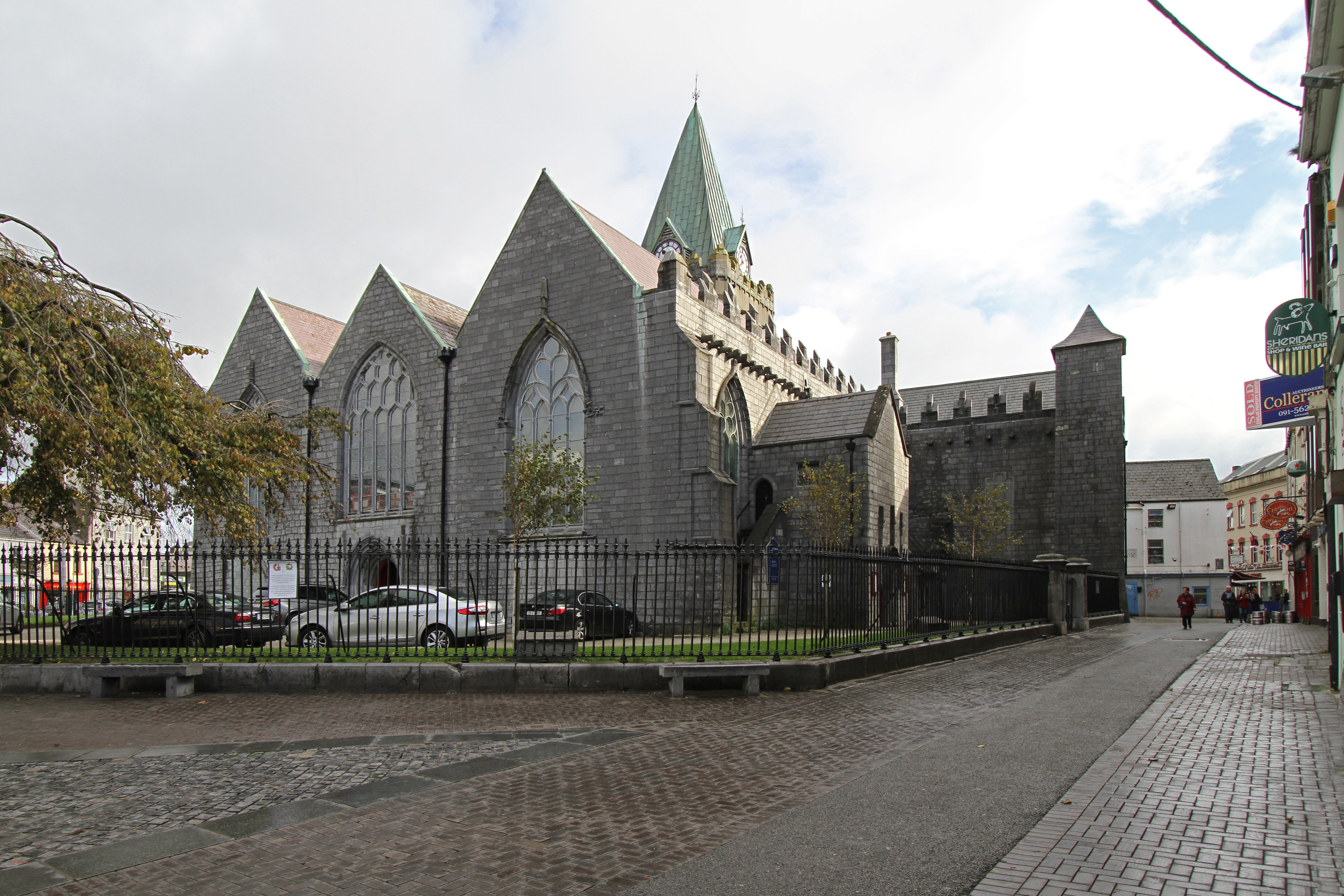 St. Nicholas' Collegiate Church (Galway).